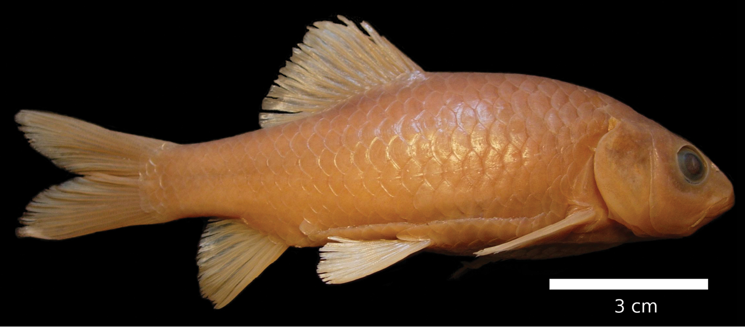 Carasobarbus luteus, specimen (CMNFI 79-0187) from Rūdkhāneh-ye Sarzeh.